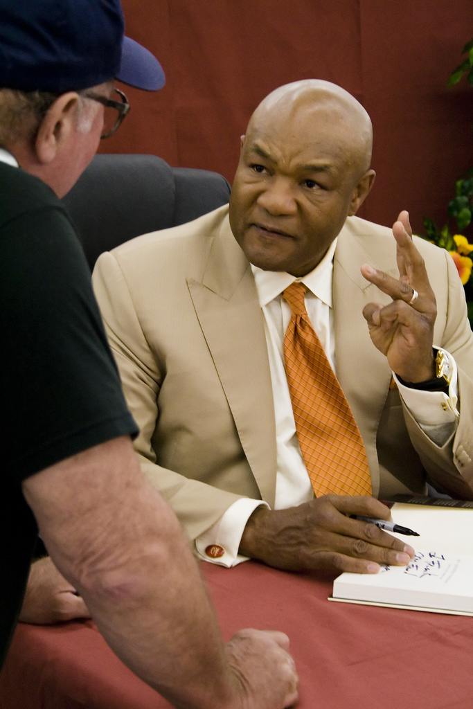 George Foreman lists his three heroes for an adoring fan and fellow Wal-Mart shopper